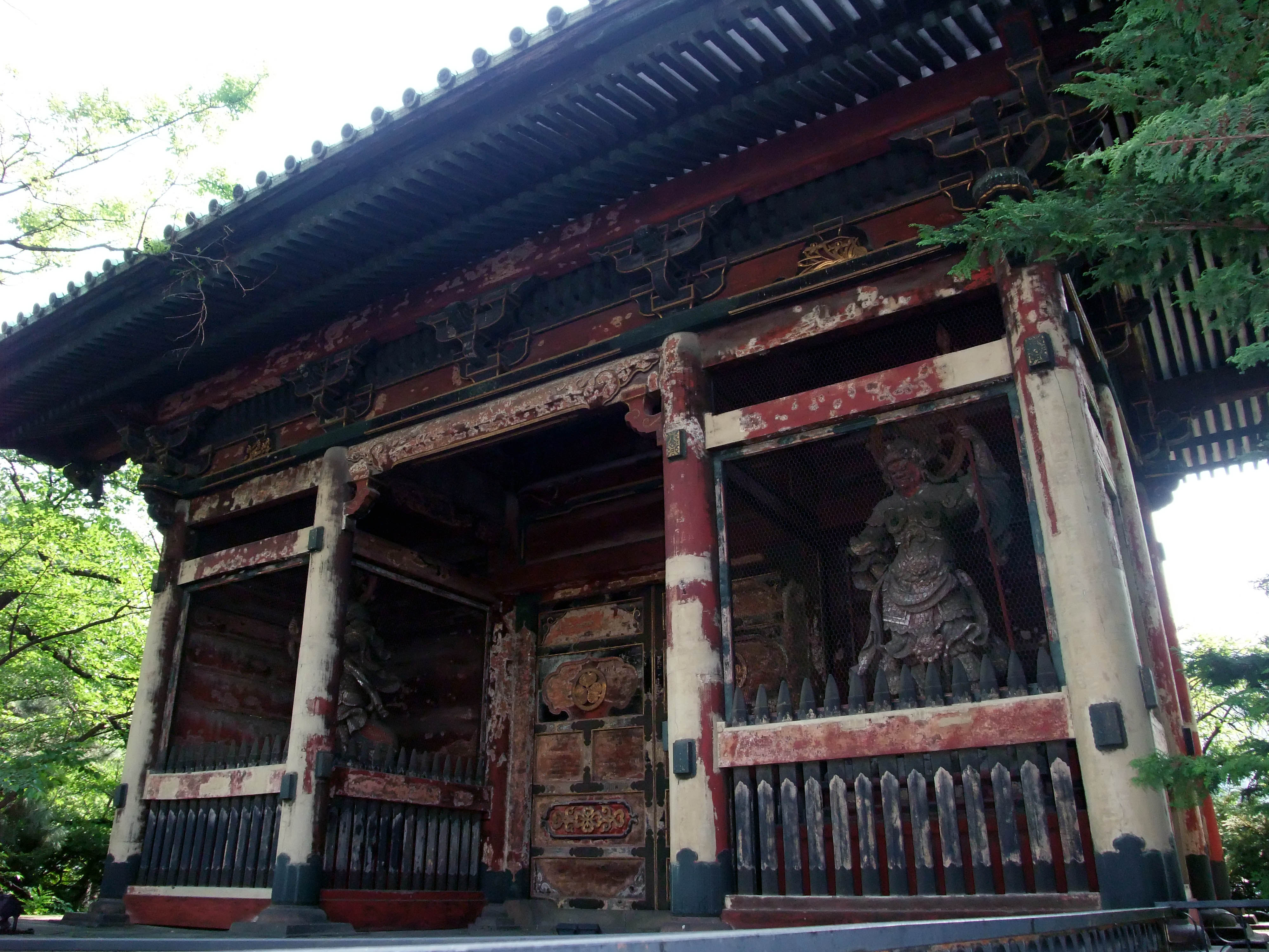 Photo of the Niten-mon, a gate of Yūshōin, the mausoleum of Shōgun Tokugawa Ietsugu, located in Zōjōji, a temple in Shiba Park, Tokyo (one of Japan's national important cultural properties)